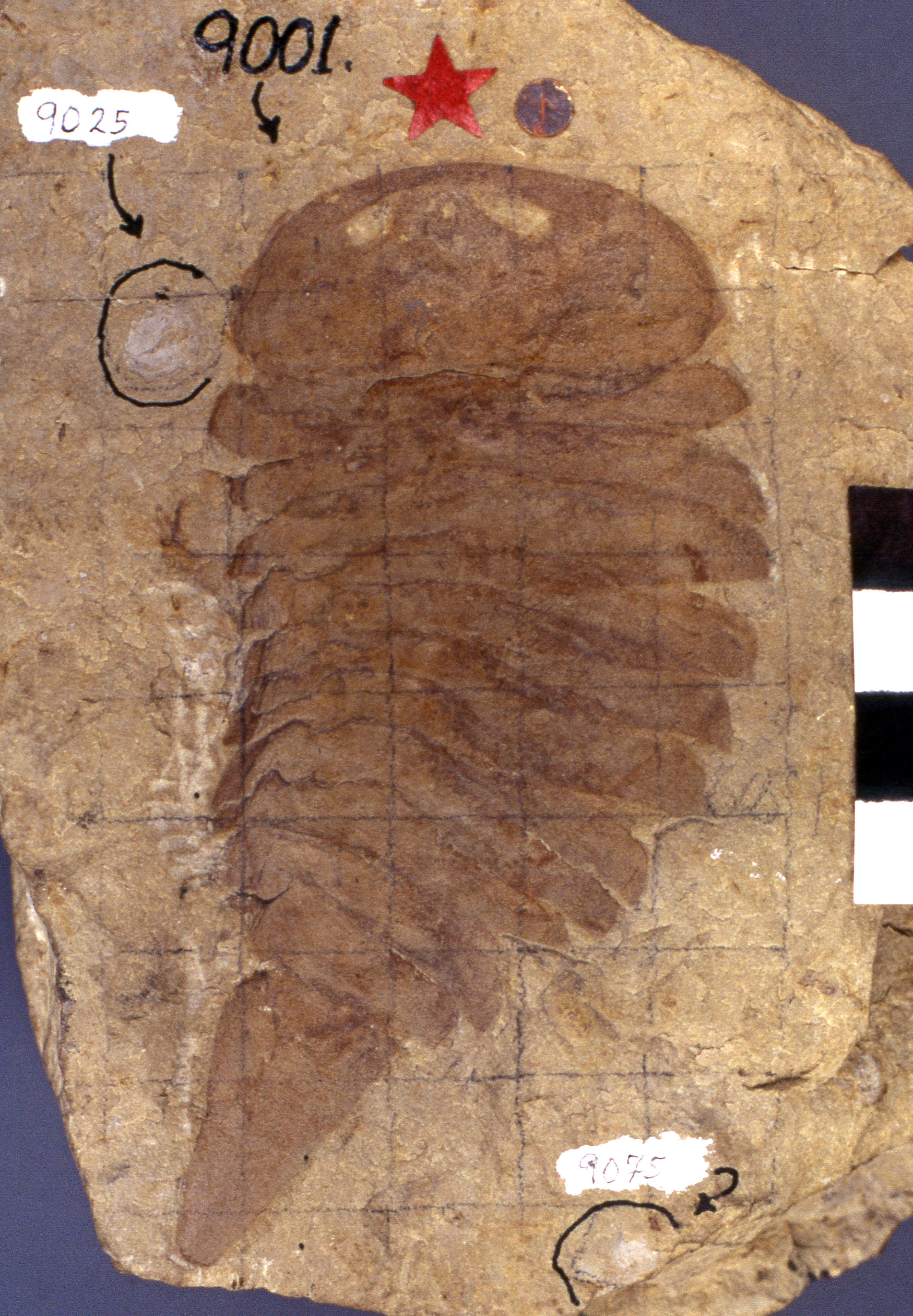 Strabops thatcheri fossil aglaspidid from the Cambrian of Missouri, USA (YPM 9001, Yale University's Peabody Museum of Natural History, New Haven, Connecticut, USA). (centimeter scale at right) Aglaspidids are a rare group of fossil arthropods known only from the Cambrian and Ordovician. They had a phosphatic exoskeleton consisting of a head (cephalon), a multisegmented trunk, and a tailspine. The fossil shown above is the holotype specimen of Strabops thatcheri, which is the type species of Strabops, which is the type genus of Family Strabopidae. The high-level taxonomy of aglaspidids has been debated by paleontologists. The classification given below is from Hou & Bergstrom (1997). Classification: Animalia, Arthropoda, Schizoramia, Lamellipedia, Artiopoda, Aglaspidida, Strabopida, Strabopidae Stratigraphy: Potosi Dolomite, Upper Cambrian Locality: Flat River, Missouri, USA Reference cited: Hou & Bergstrom (1997) - Arthropoda from the Lower Cambrian Chengjiang fauna, southwest China. Fossils & Strata 45. 116 pp.